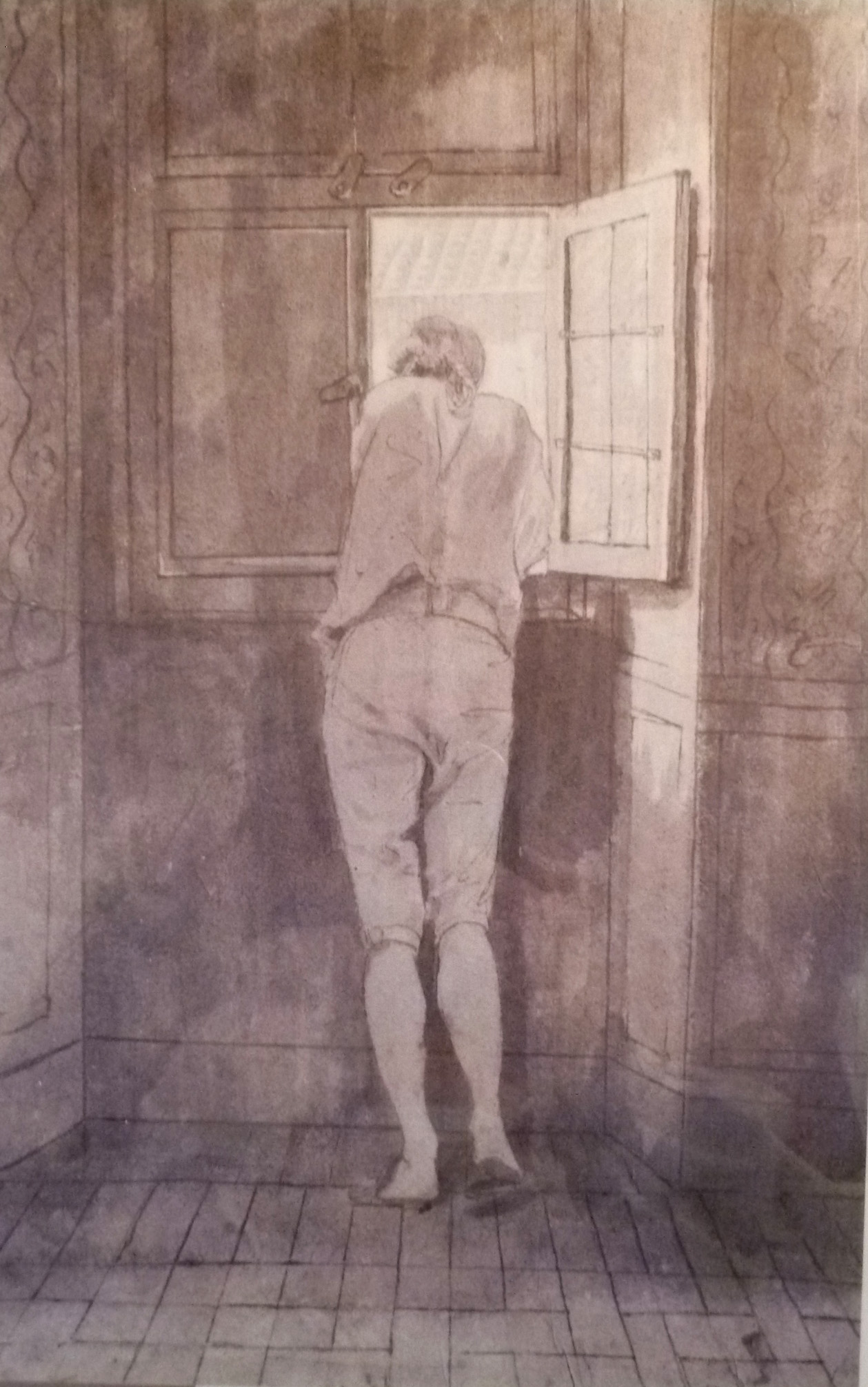 Goethe at the window of his apartment in Rome (1787) by Johann Heinrich Wilhelm Tischbein; Freies Deutsches Hochstift / Frankfurter Goethe-Museum